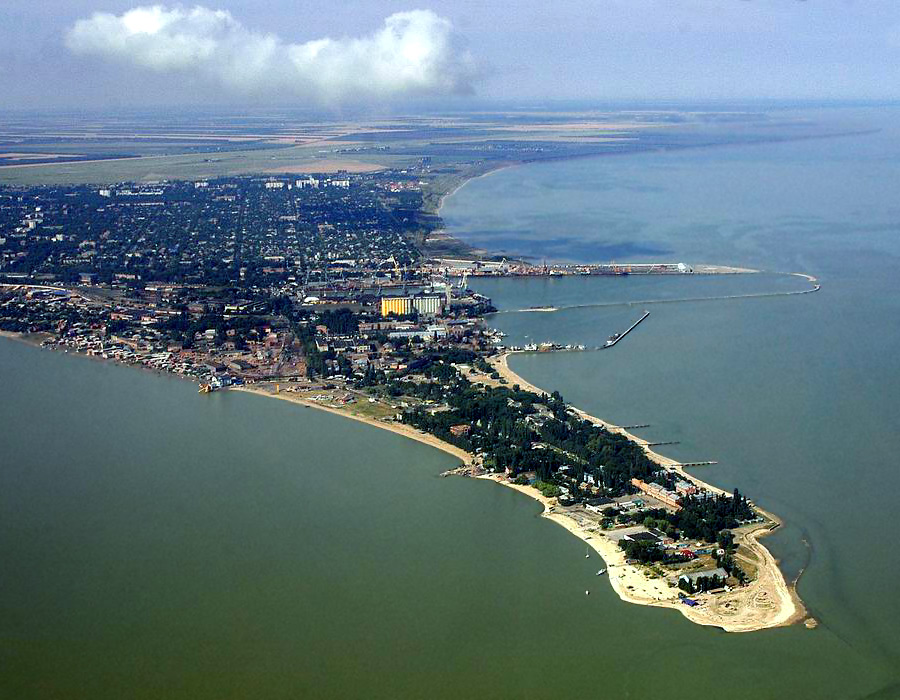 Aerial view of Eisk